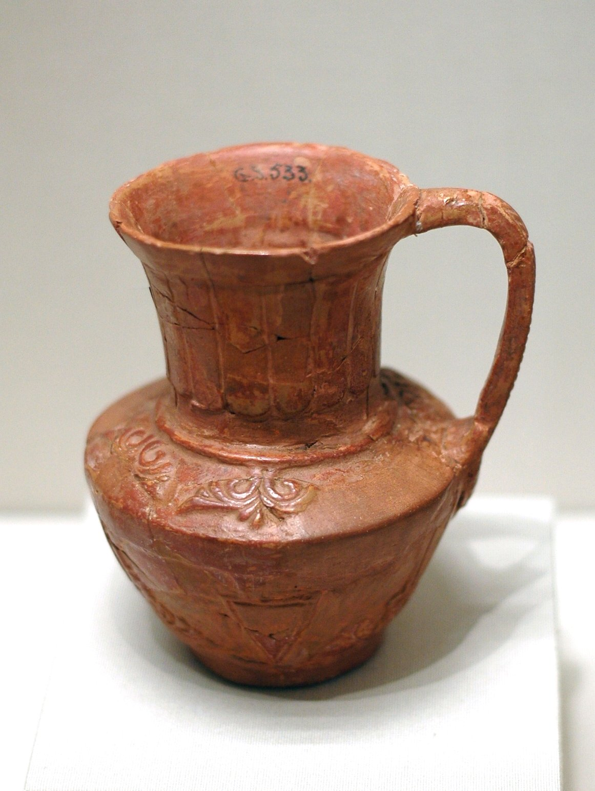 Pitcher.